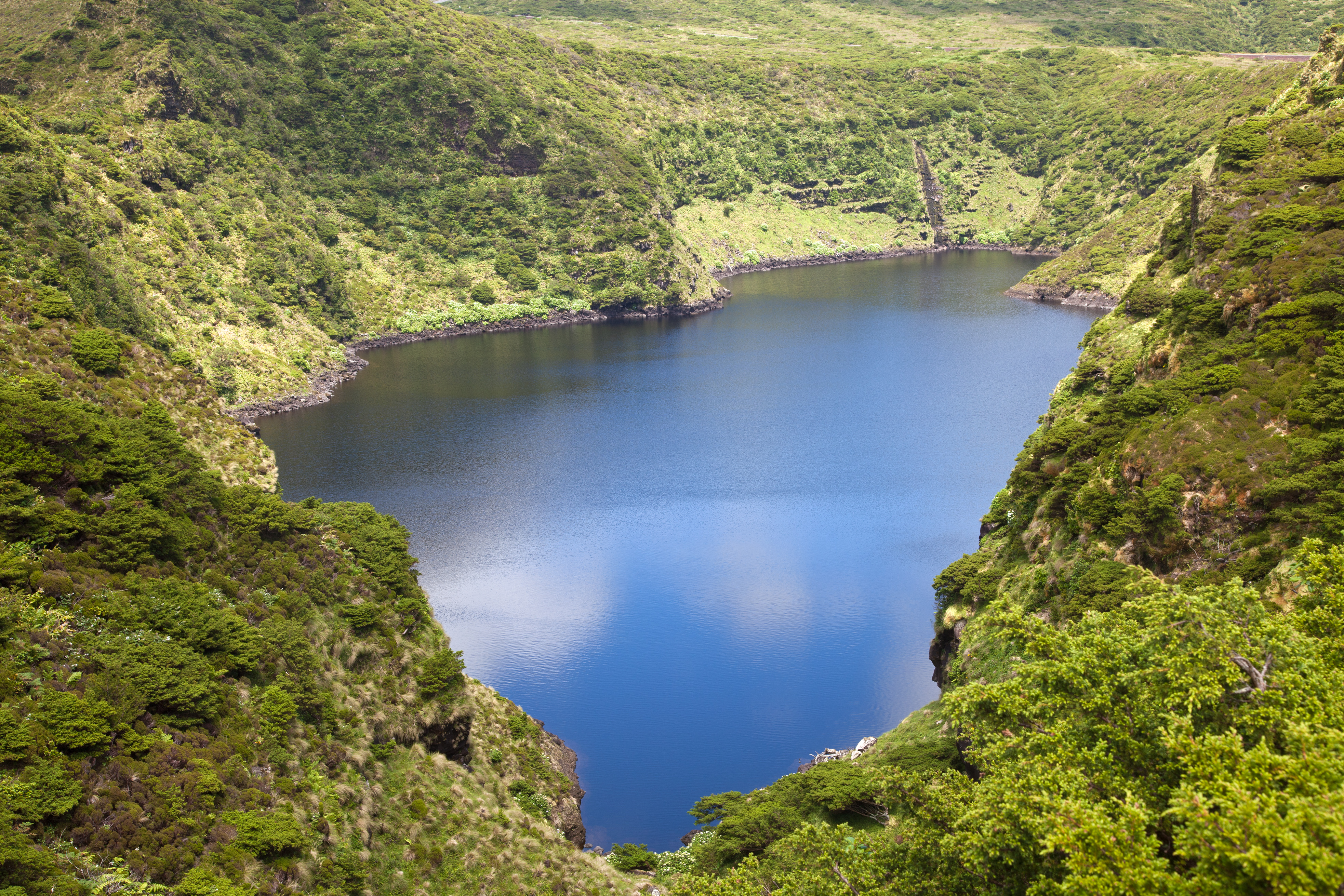 blue Lagoa Comprida (or: Caldeira Comprida, steep inner walls of former volcano), island of Flores, Azores.